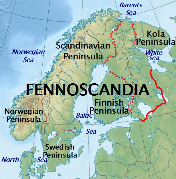 Map of geographic features in northern Europe.